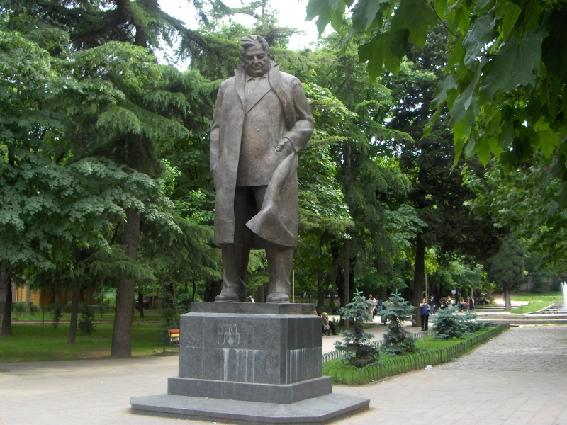 A statue to the Georgian poet Giorgi Leonidze in Tbilisi